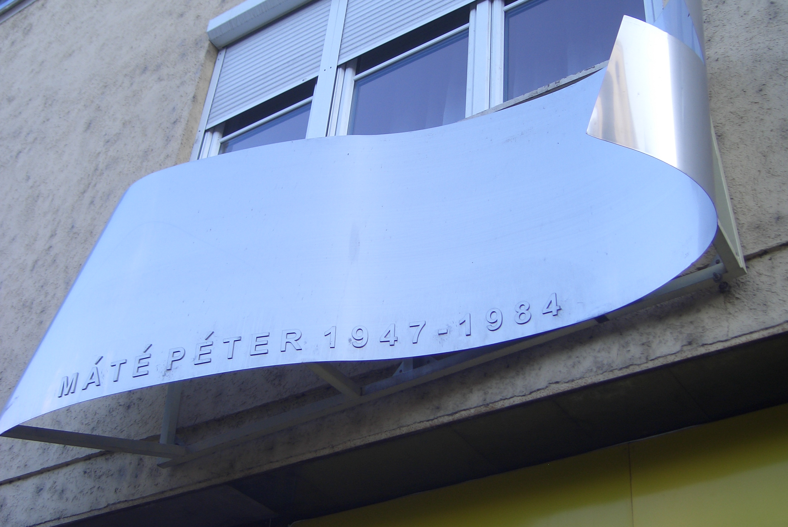 Memorial plaque for Péter Máté (musician, singer), at his former domicile, 75 Krisztina körút, Budapest. Erected 2017.